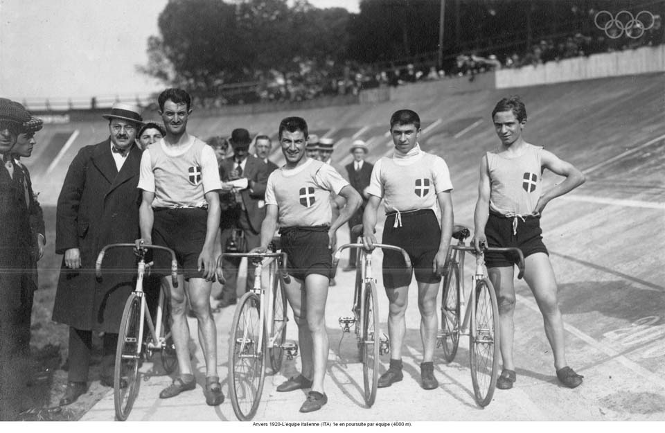 Antwerp 1920-The Italian team (ITA) 1st in team-pursuit (4000m).